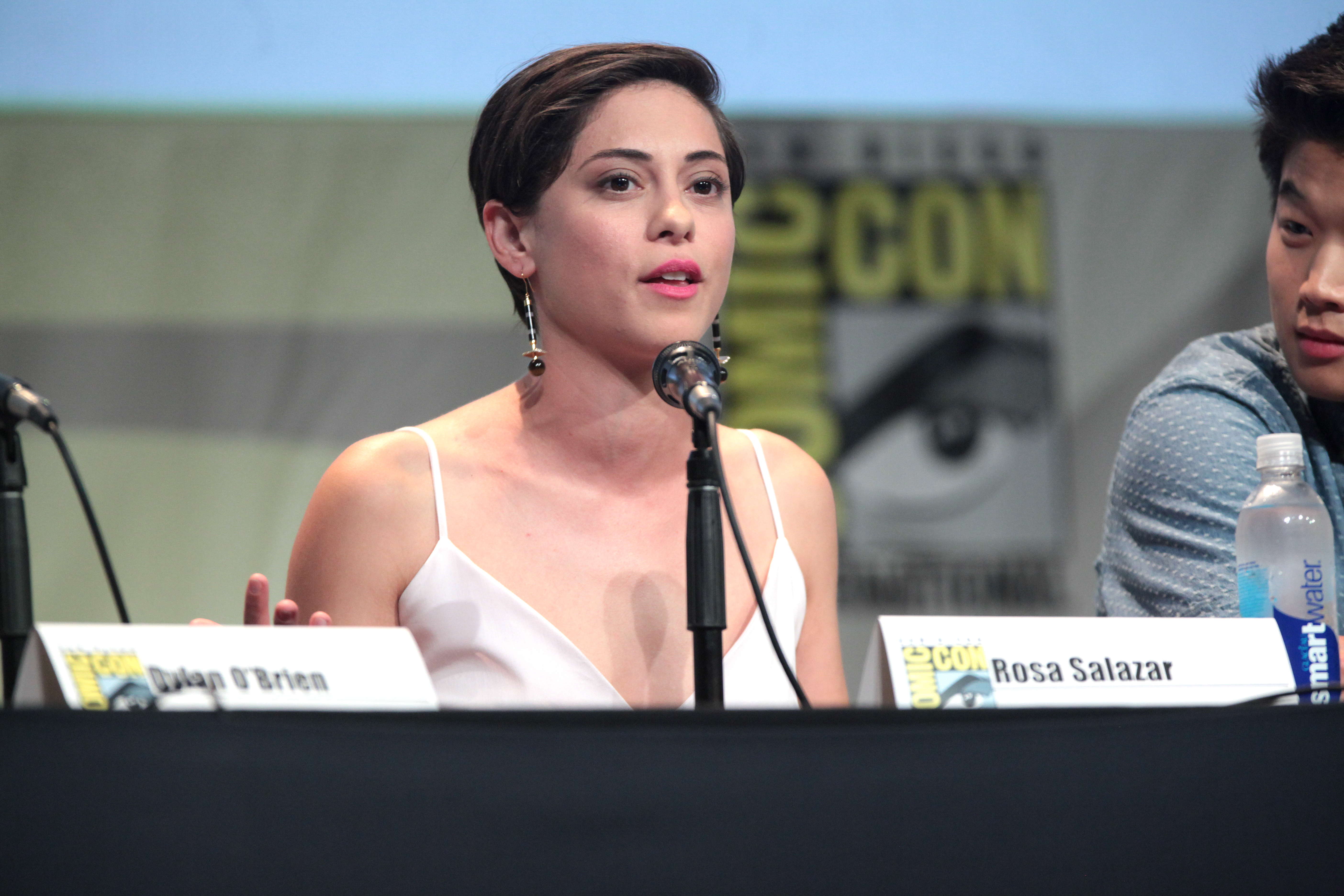 Rosa Salazar speaking at the 2015 San Diego Comic Con International, for "Maze Runner: The Scorch Trials", at the San Diego Convention Center in San Diego, California.